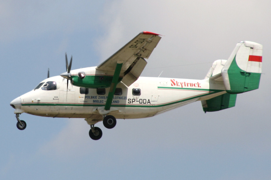 PZL M28 Skytruck, STOL transport and patrol aircraft